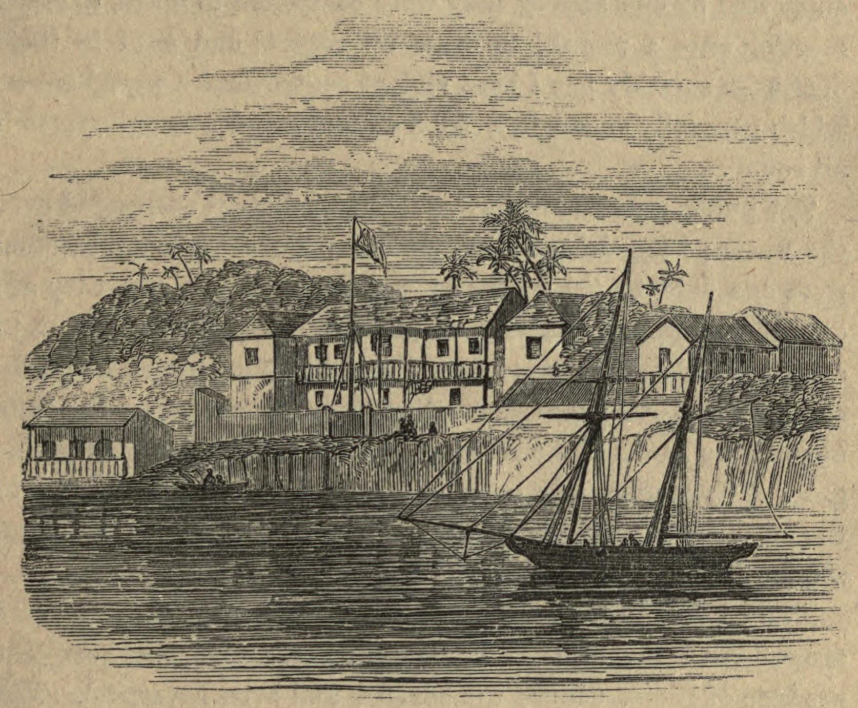 Residence of Robert Hunter, illustration in Narrative of a Residence at the Capital of the Kingdom of Siam by Frederick Arthur Neale